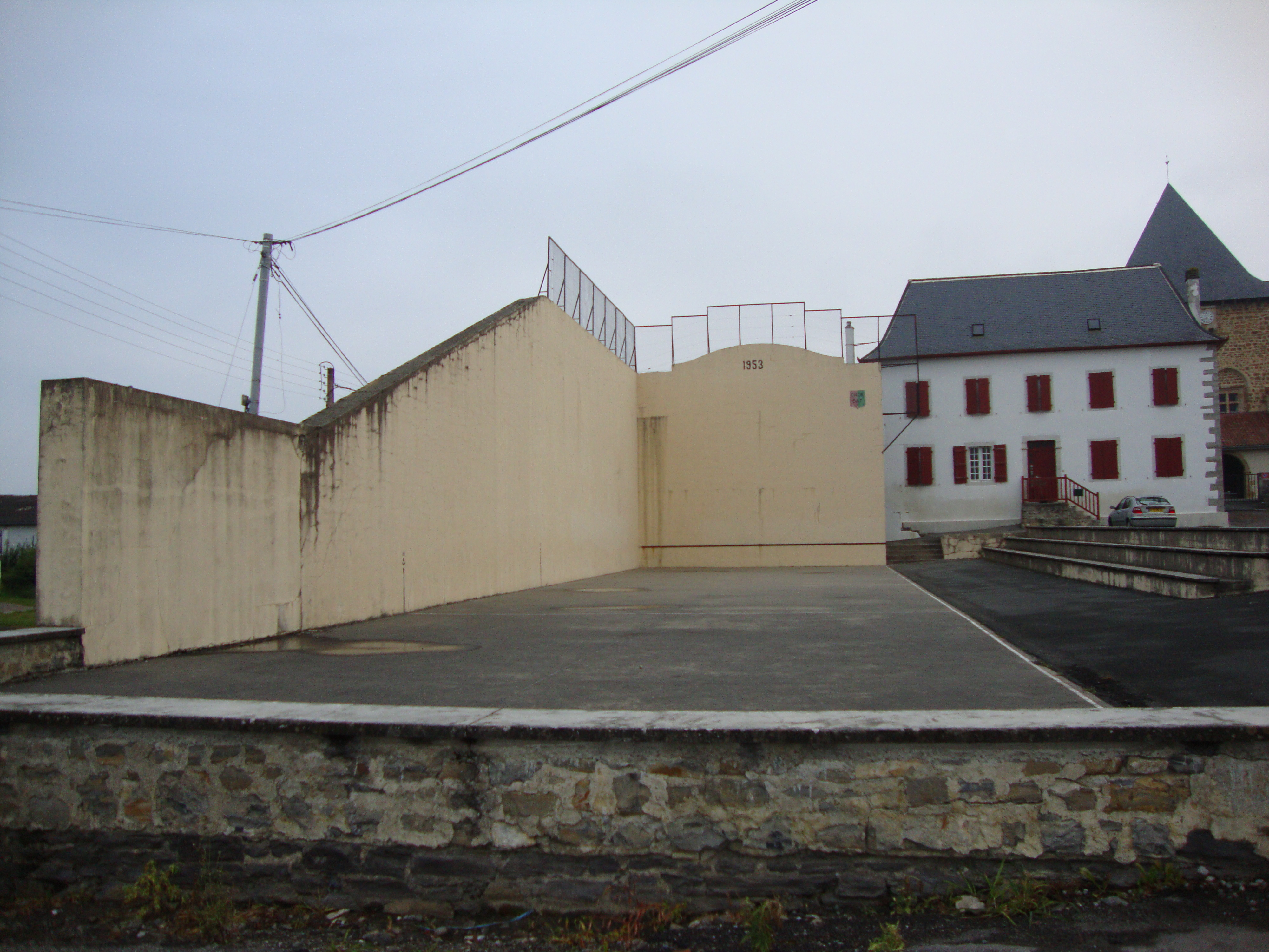 Domezain (Domezain-Berraute, Pyr-Atl, Fr) Pelota court of type Fronton mur-à-gauche.